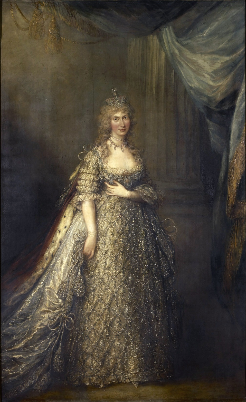 Caption from the museum's website / Gallery label Caroline of Brunswick married her first cousin, George, Prince of Wales on 8 April 1795. Later in the month the Prince told John Hoppner that the King (George III) wished for a portrait of the bride. In August 1795 Hoppner somehow offended George III and the commission was given to Gainsborough Dupont, who had kept up his uncle's studio in Schomberg House. The Princess sat to Dupont in June 1795; by March 1796 the portrait was finished, though the frame was not ready for the Royal Academy exhibition of that year and the painting was rejected as a consequence. The Princess is shown in her wedding dress wearing a miniature of her husband on her breast.